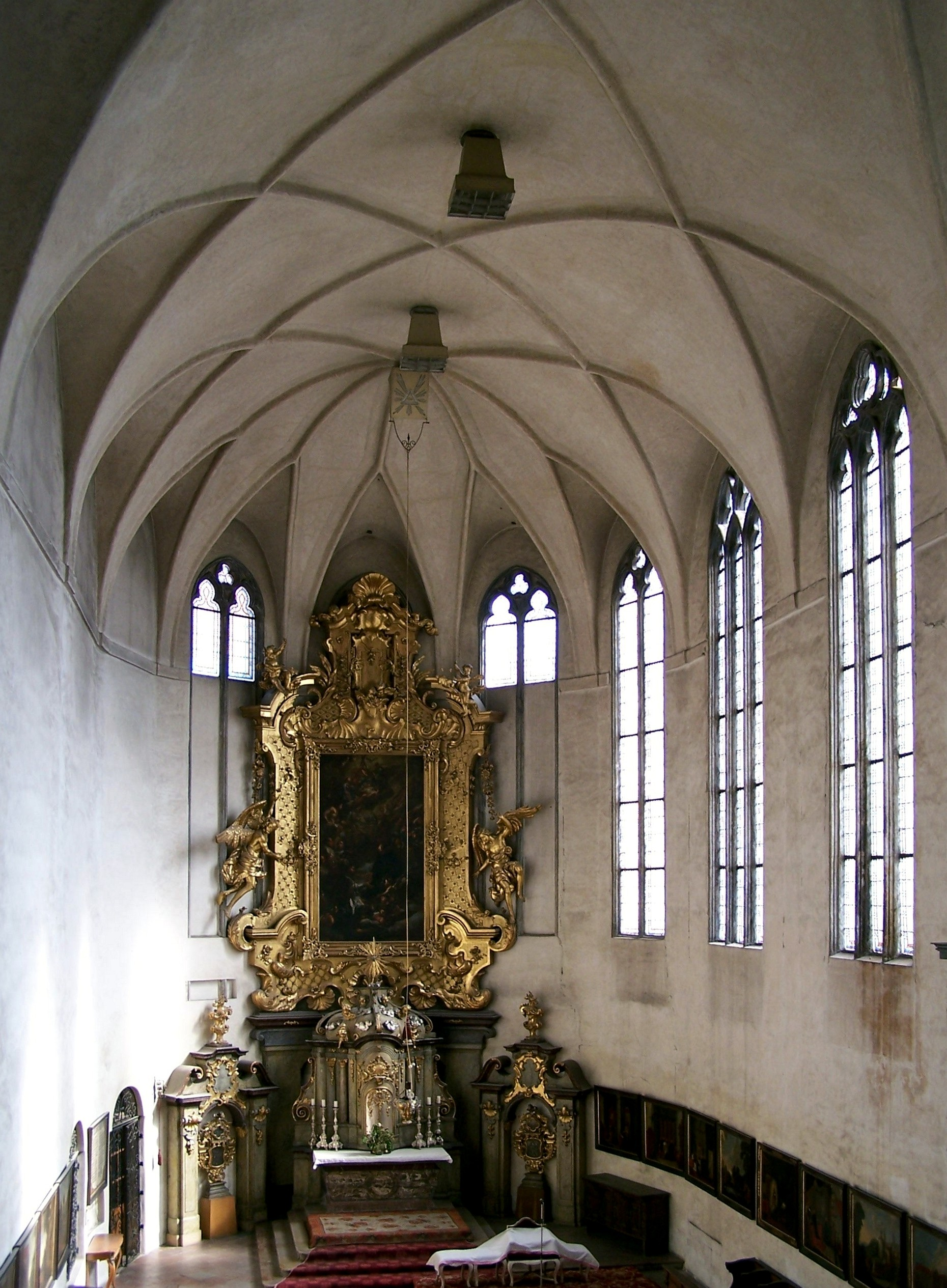 All Saints Church at Old Royal Palace of Prague Castle.